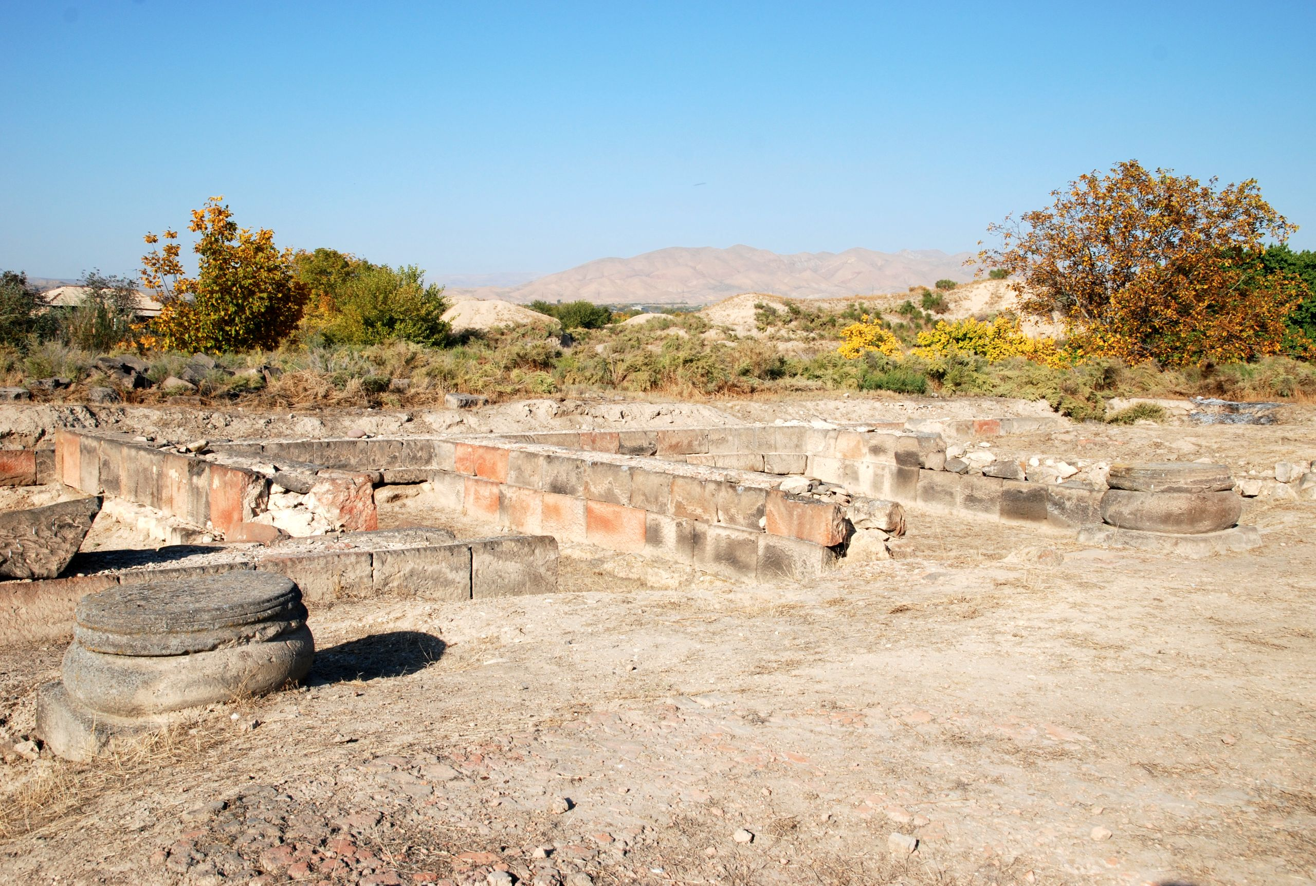 Dvin, catholicos second palace